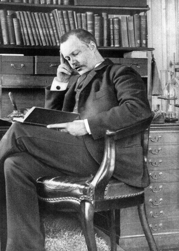 Houston Stewart Chamberlain in 1895